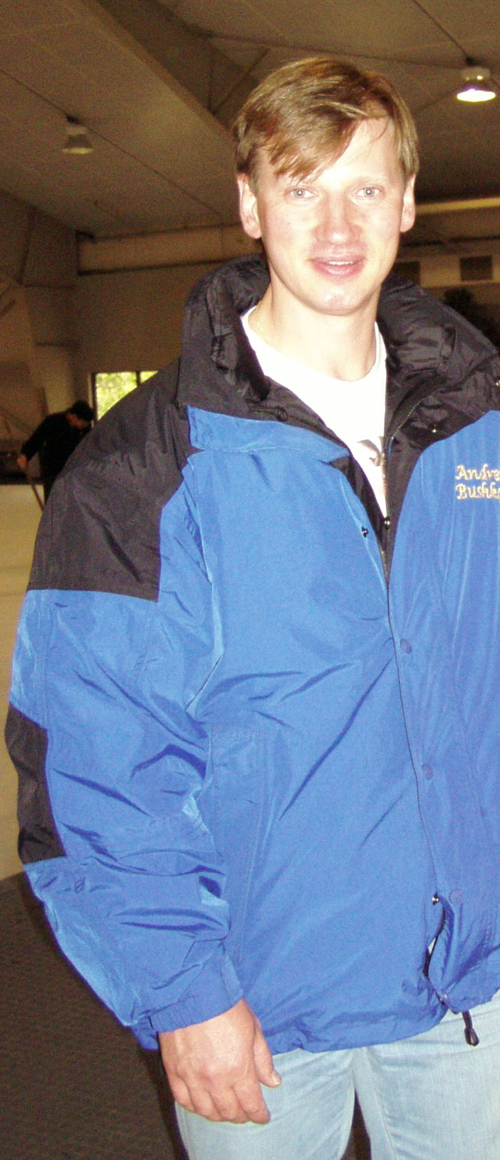 Andrei Bushkov 2006 in Lake Arrowhead (He agreed to publish this photo in Wikipedia)